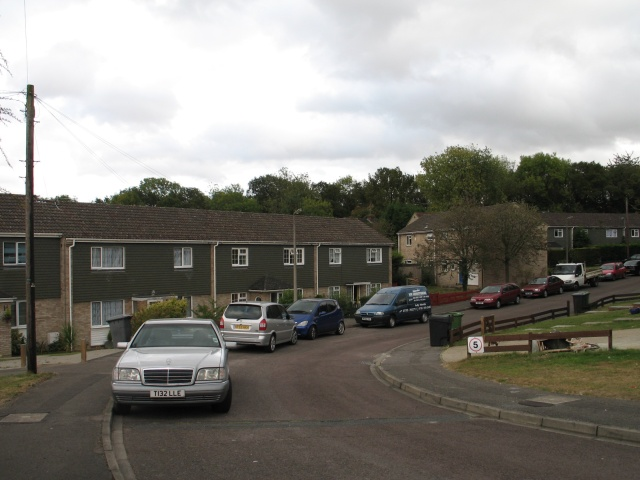 Houses at Tilehurst Tilehurst is a suburb of Reading in Berkshire. Situated on high ground some 3 miles from town centre, the Tilehurst Water Tower is a prominent landmark when approaching Reading from the West on the M4 Motorway. The name Tilehurst comes from 'tigel' or 'tile' and 'hurst' or 'wooded hill' - tile manufacturing was present in the district until recent times.